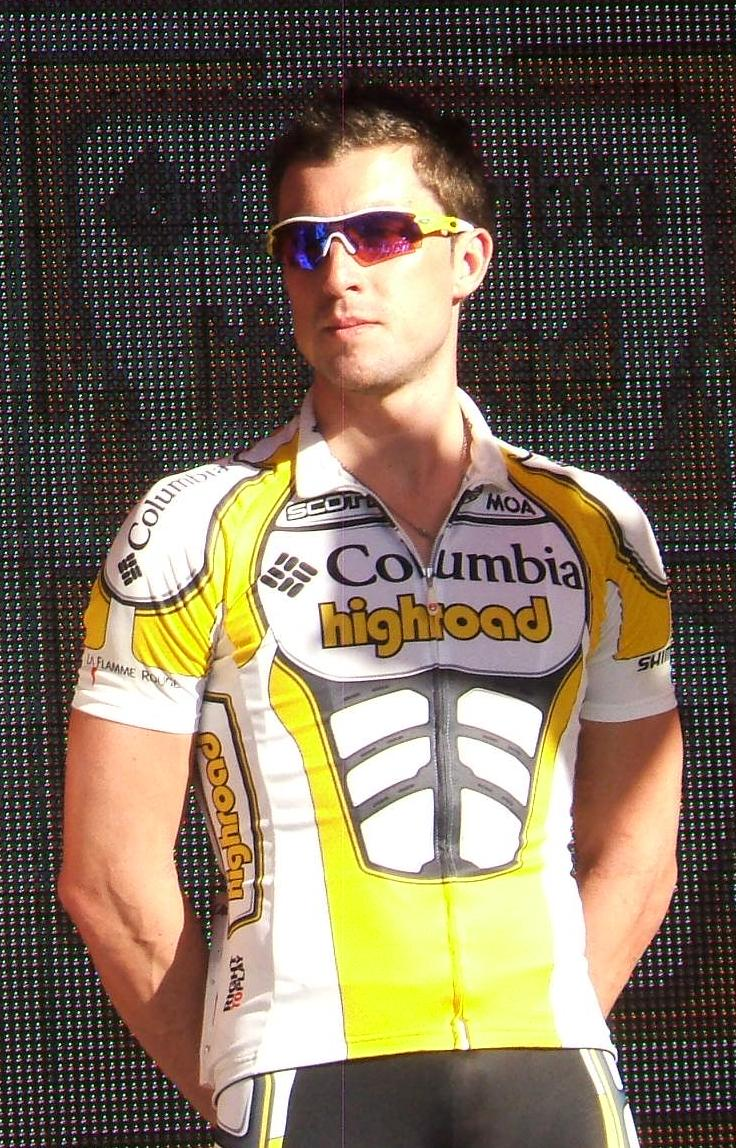 Named cyclist at the en:2009 Tour Down Under team presentation